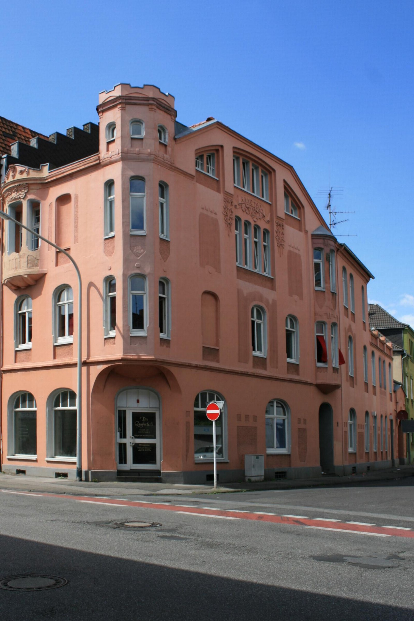 Cultural heritage monument No. H 008 in Mönchengladbach